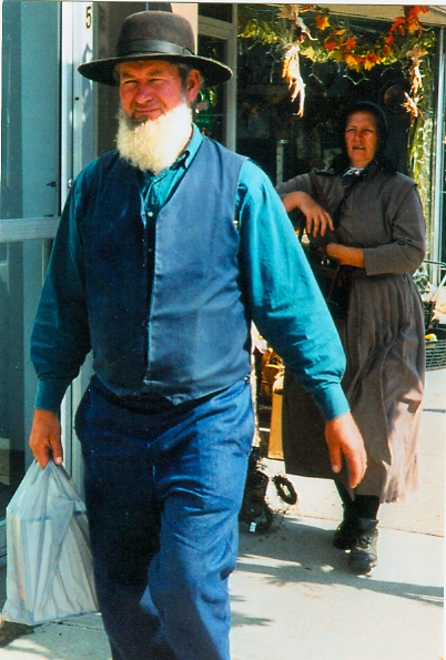 Amish couple shopping in Aylmer, Ontario, Canada